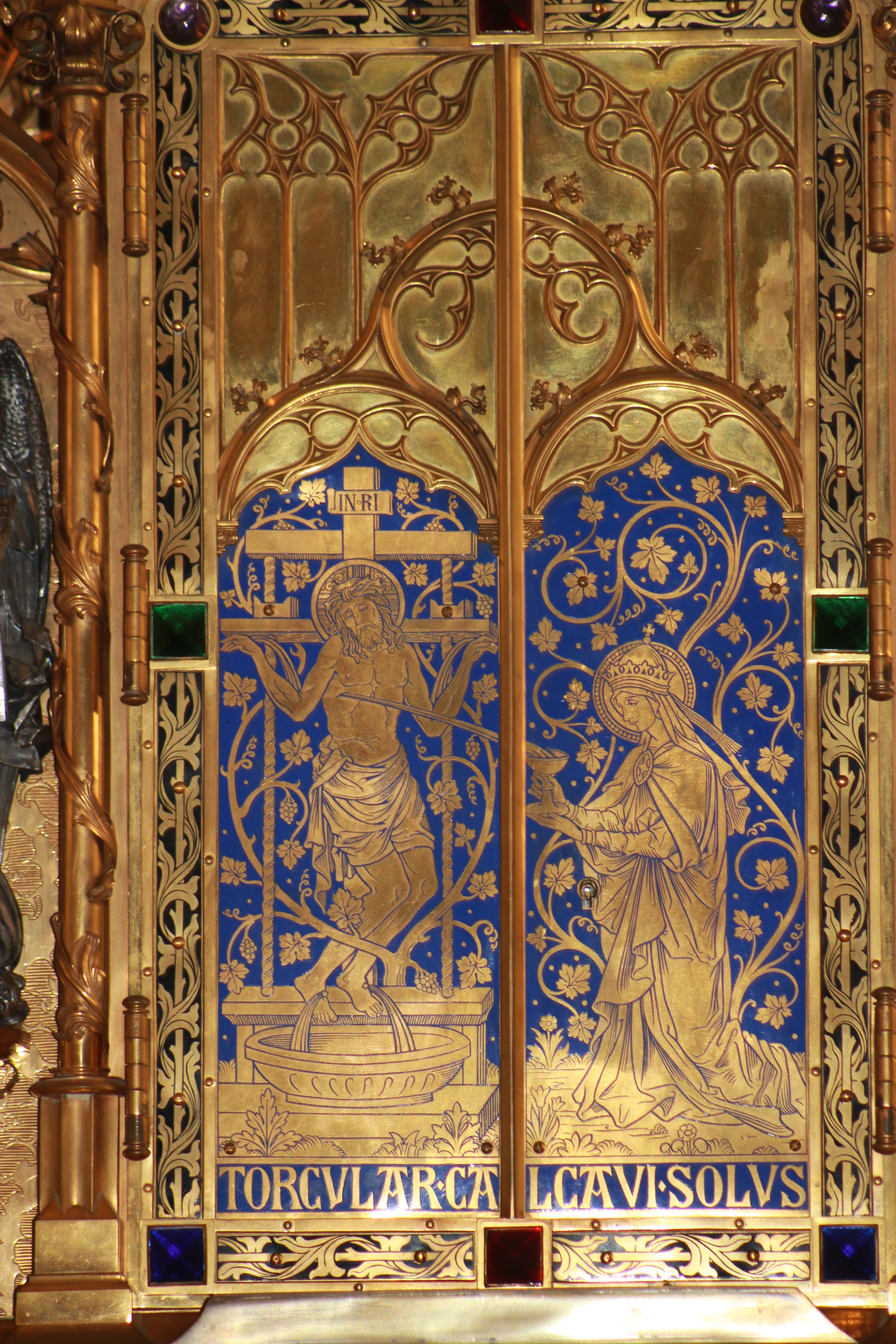 Parish church in Heiligenblut - main altar - detail